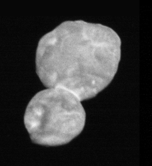 First Images of Ultima Thule Release Date: January 2, 2019 This image taken by the Long-Range Reconnaissance Imager (LORRI) is the most detailed of Ultima Thule returned so far by the New Horizons spacecraft. It was taken at 5:01 Universal Time on January 1, 2019, just 30 minutes before closest approach from a range of 46,000 miles (73,929 kilometers), with an original scale of 459 feet (140 meters) per pixel.